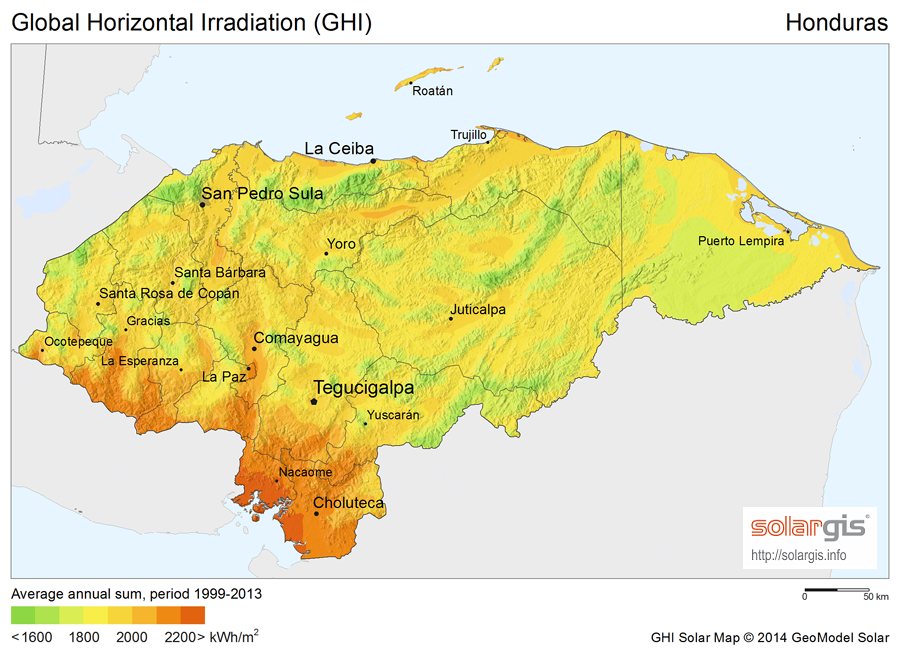 Solar Radiation Map: Global Horizontal Irradiation Map of Honduras, SolarGIS. English version.